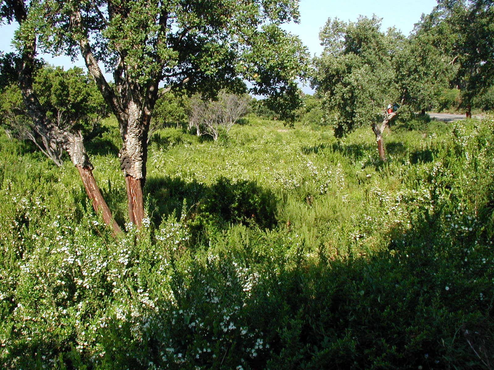 Quercus suber with an understory of Myrtus communis, Cap Corse, Corsica